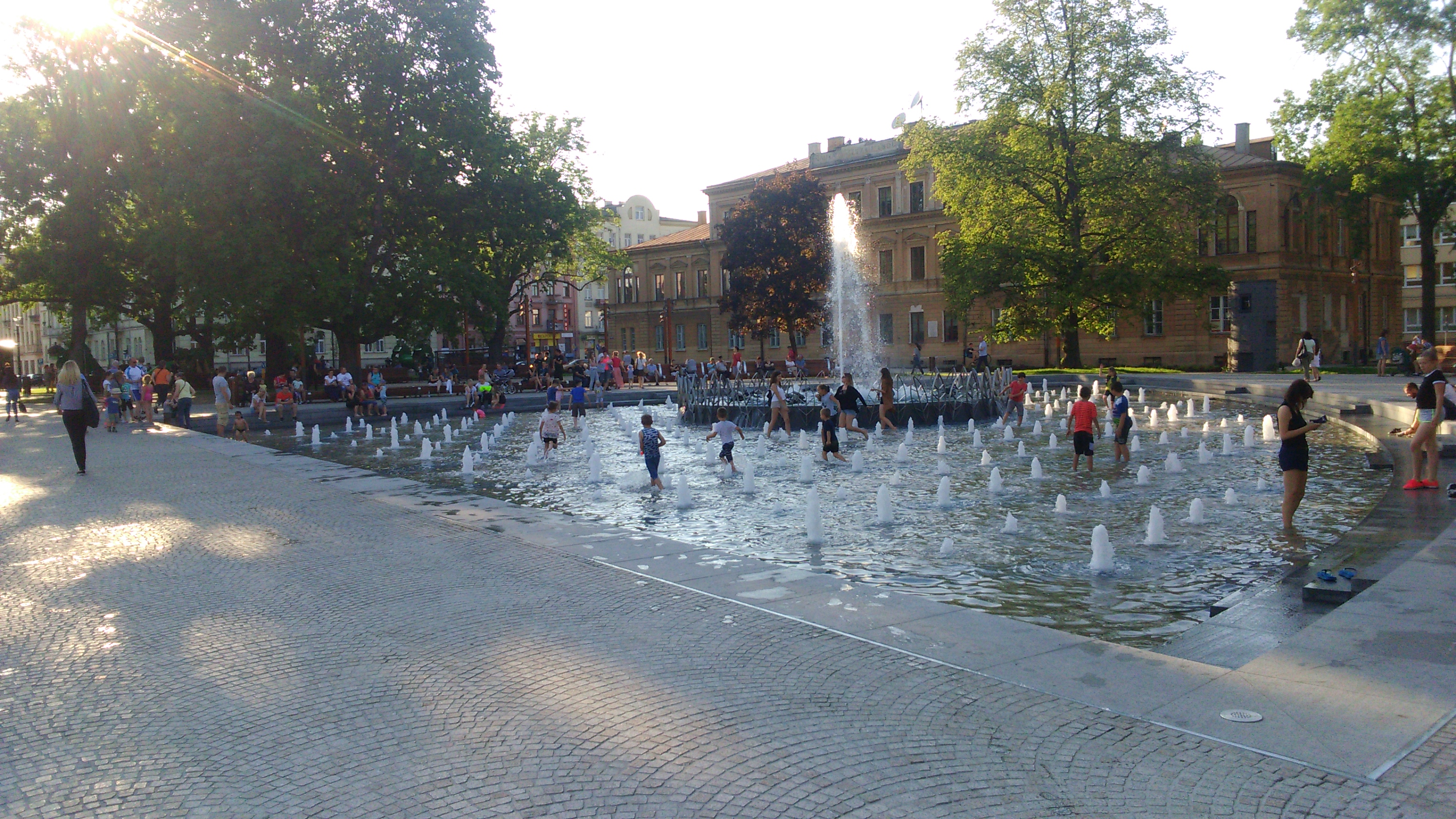 Plac Litewski